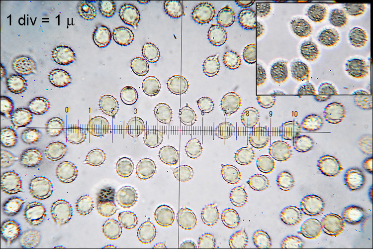 Russula heterophylla (Fr.) Fr. Image location: Bovec basin, East Julian Alps, Posočje, Slovenia Code: Bot_455/2010_DSC4550 Habitat: Mixed forest, deciduous trees dominant, nearly flat terrain, cretaceous clastic rock (flysh) bedrock, in shade, partly protected from direct rain by tree canopies, average precipitations ~ 3.000 mm/year, average temperature 8-10 deg C, elevations 430 m (1.400 feet), alpine phytogeographical region. Substratum: forest soil, rotten leaves, some needles and wood debris. Place: West of Bovec, near the trail from station A of the Kanin cable car to village Plužna, East Julian Alps, Posočje, Slovenia EC Comments: Growing solitary, pileus diameter about 8 cm. Spore print white. Nikon D700 / Nikkor Micro 105mm/f2.8 Recognized by sight Used references: (1) Personal communication. Determined by Mr. Anton Poler. (2) R.M. Daehncke, 1200 Pilze in Farbfotos, AT Verlag (2009), p 858. (3) M.Bon, Parey’s Buch der Pilze, Kosmos (2005), p 56 (4) A. Poler, Veselo po gobe, Mohorjeva druba, Celovec (in Slovene), (2002), p 158. (5) . Based on microscopic features: Spore dimensions: 5,7 (SD=0,4) x 4,8 (SD=0,4) micr., Q = 1,17 (SD=0,07), n = 30 . Motic B2-211A, magnification 1.000 x, oil, in water. Based on chemical features: Taste indistinctive, smell mild but distinctive on ?? For more information about this, see the observation page at Mushroom Observer.